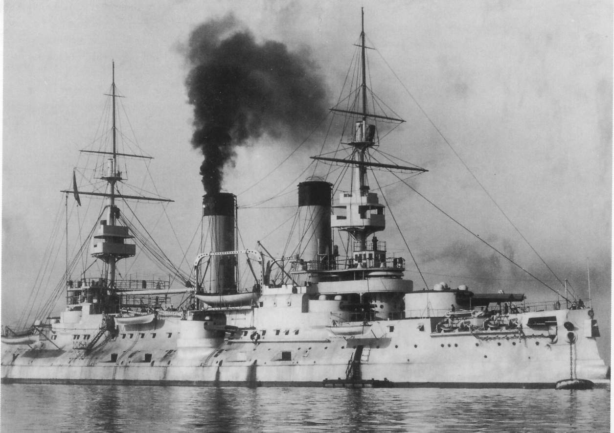 Imperial Russian battleship Tsesarevich during her sea trials in Toulon, September 1903